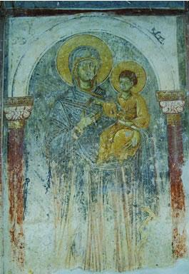 Icon of Virgin with Christ in Matejče Monastery, Macedonia, before destruction by albanian terrorists.